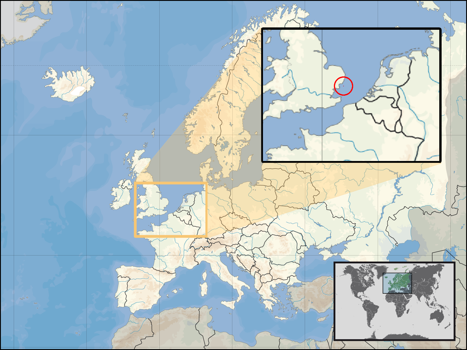 Location of Micronation Principality of Sealand in Europe 2007